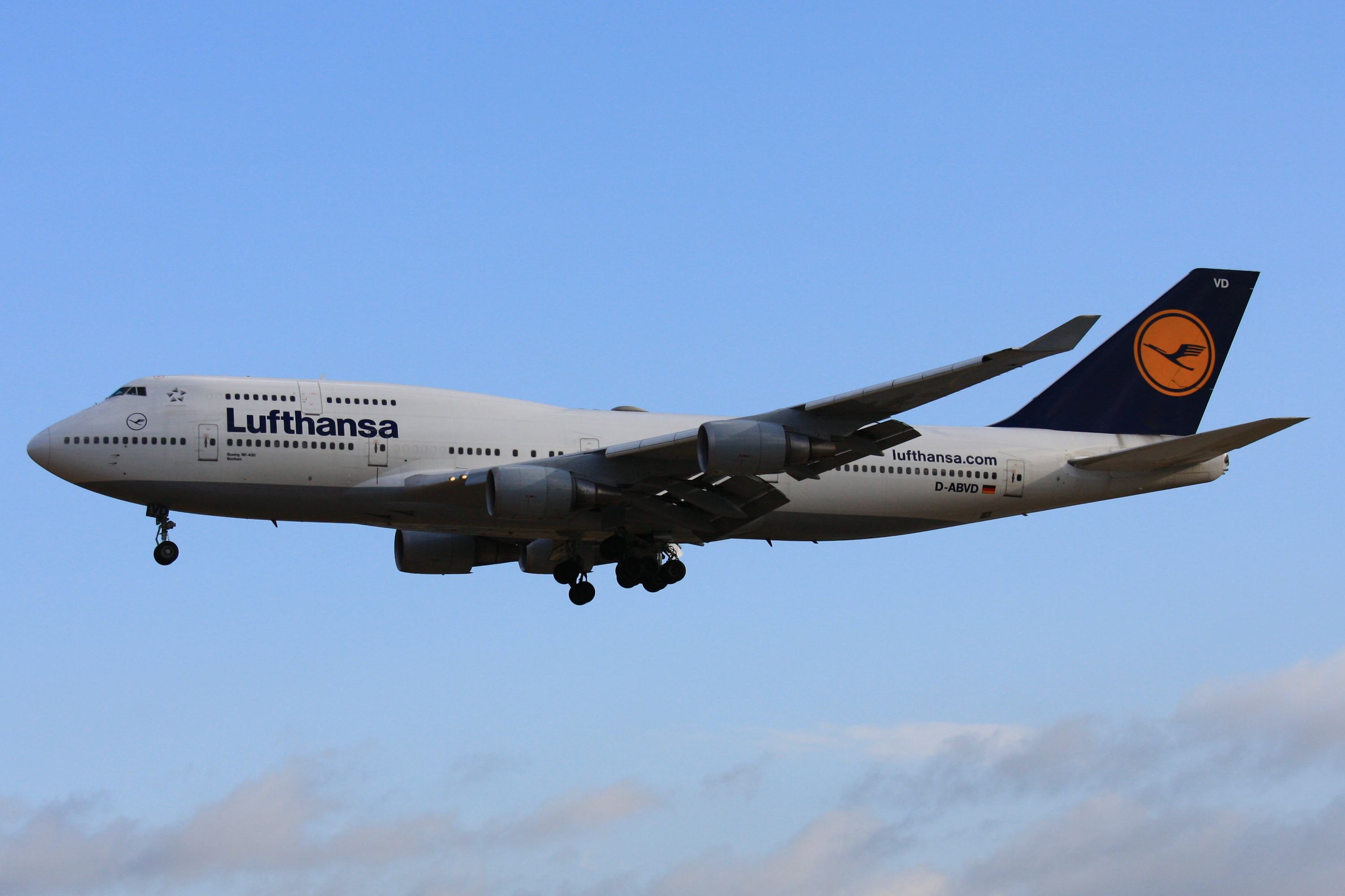 A Boeing 747-400 of Lufthansa CityLine landing at Frankfurt Airport